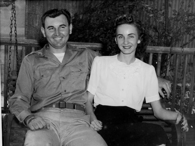 United States Army officer Charles Murray and his wife, Anne, are pictured after his return from Europe in September 1945.